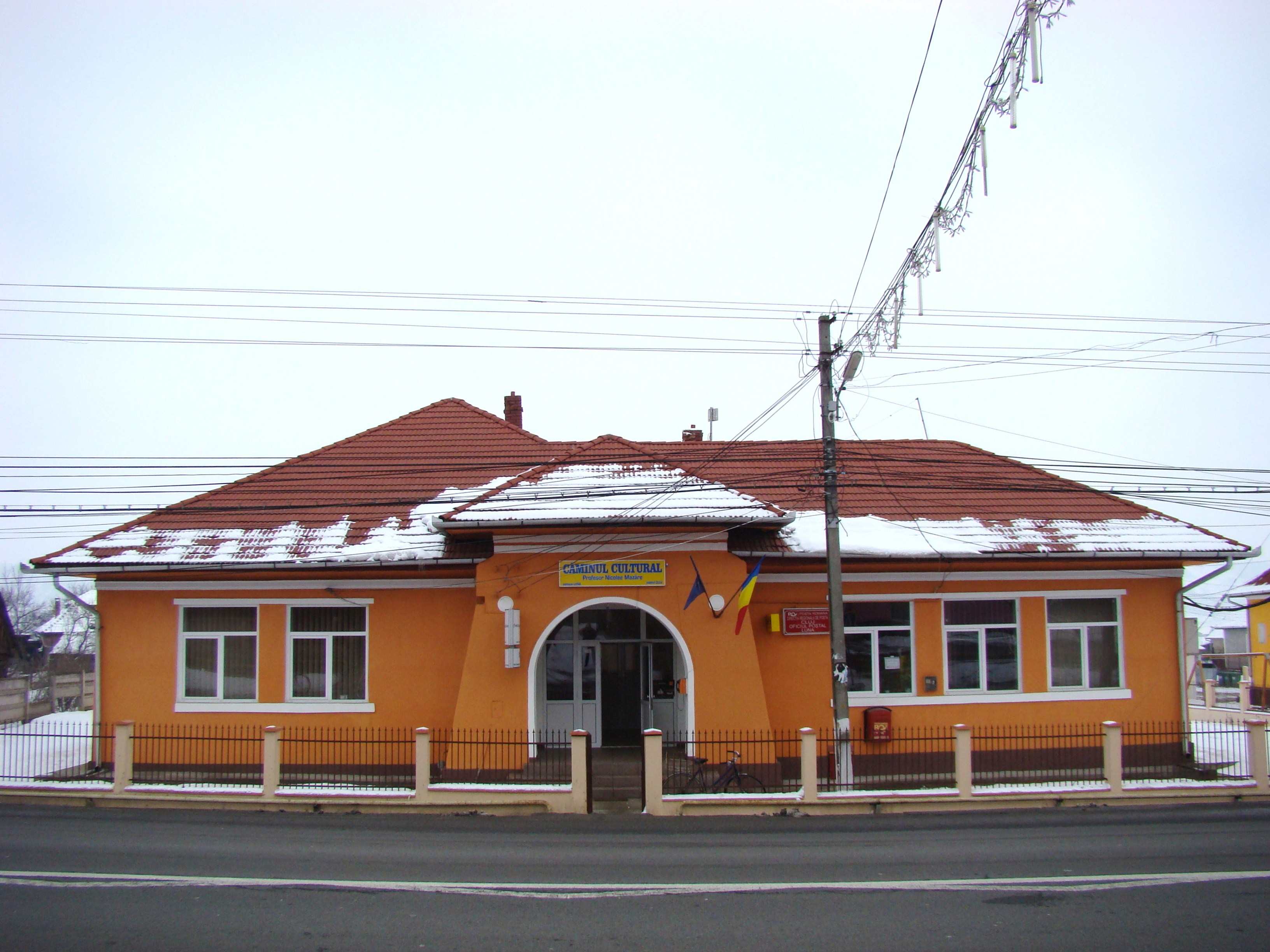 Caminul Cultural, Luna, Cluj county, Romania